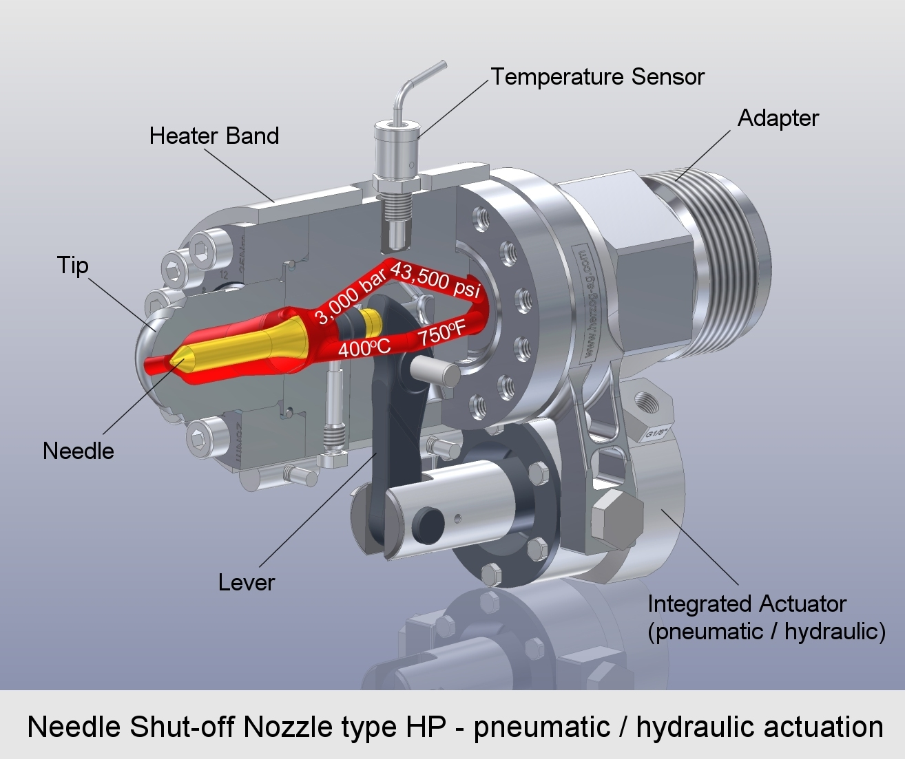 Needle Shut-off Nozzle type HP - pneumatic or hydraulic actuation info